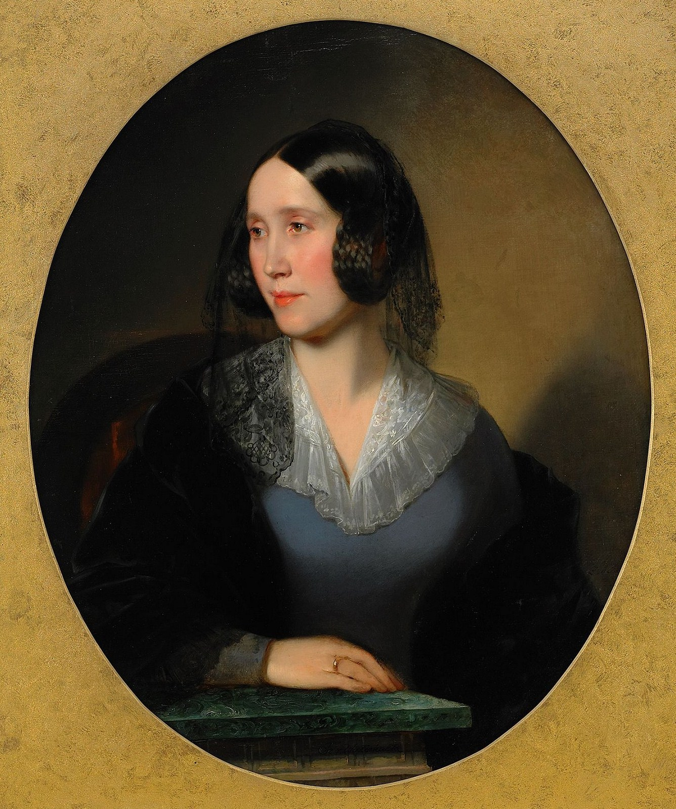 Princess Vera Dmitrievna Golitsina (1807-1850) was the wife of Prince Nikolai Yakovlevich Golitsin (1788-1850).